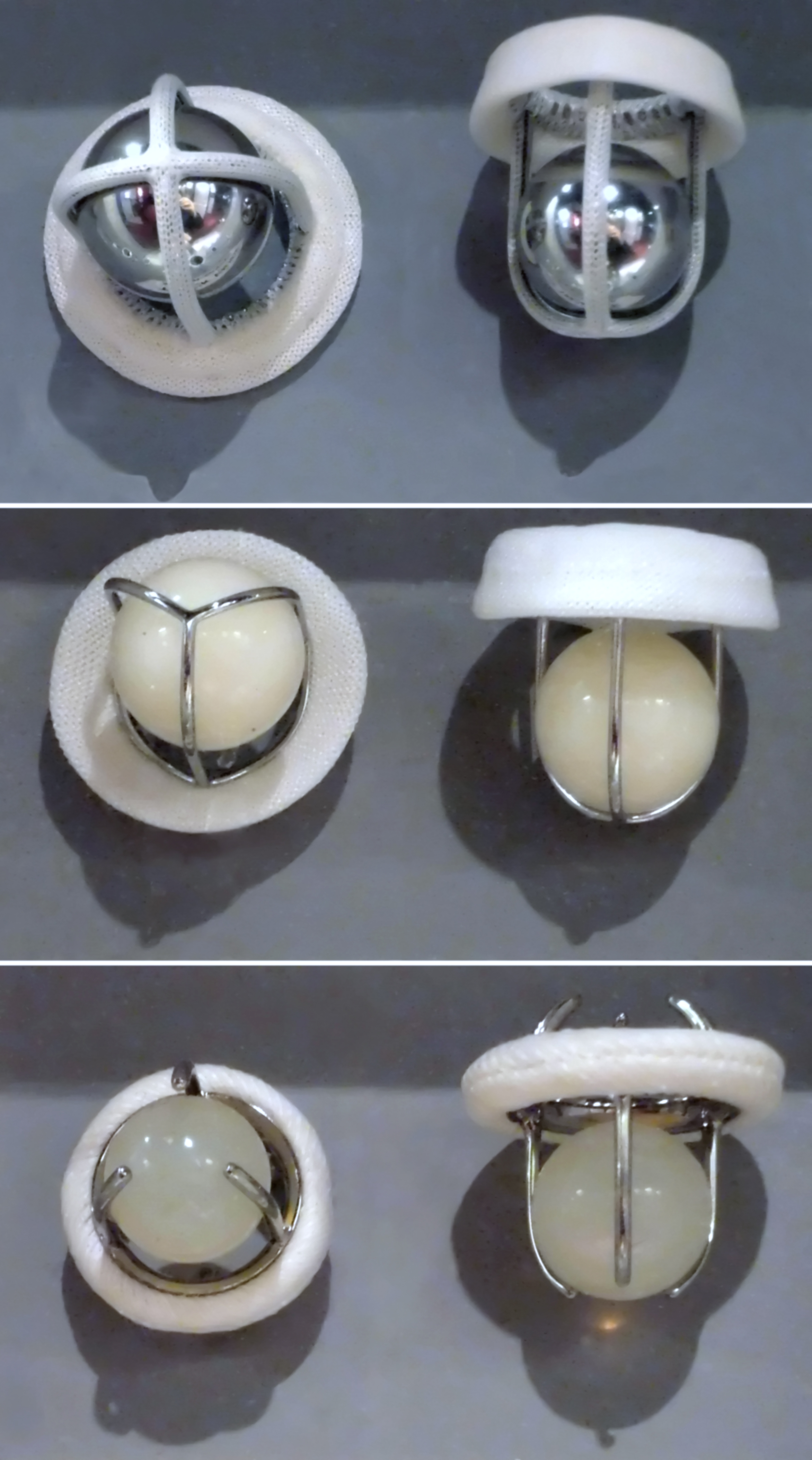 1. Starr-Edwards Valve, Steel ball 2. Starr-Edwards Valve, Silicone Rubber Ball 3. Smeloff-Cutter Valve, Silicone Rubber Ball In order to simplify x-ray functional diagnostics of the prosthetic cardiac valve the silicone rubber ball is impregnated with barium sulfate for radiopacity. The circular side of the valve is attached to the basis of the heart. Ball and cage reach into the vessel (aorta or pulmonary artery). If the pressure in the heart builds up, the valve opens by movement of the ball away from the heart, the blood flows through the primary, circular opening of the valve and past the ball into the vessel.